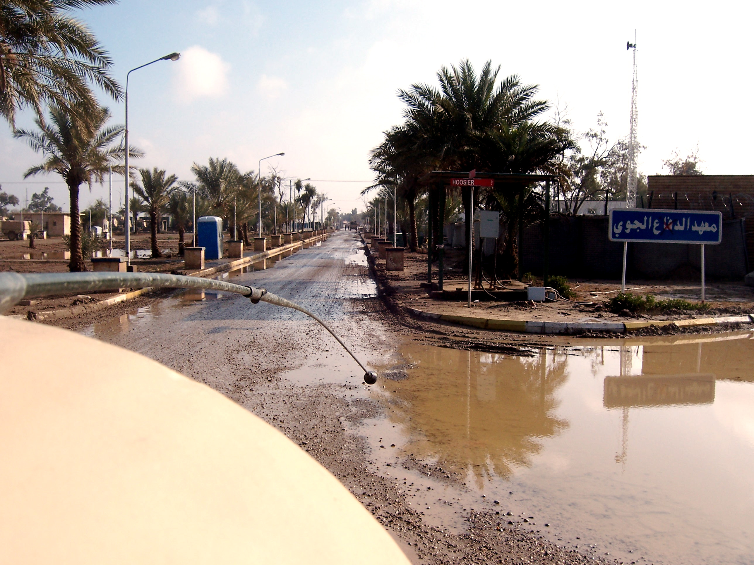 Hoosier Street at Camp Taji, Iraq